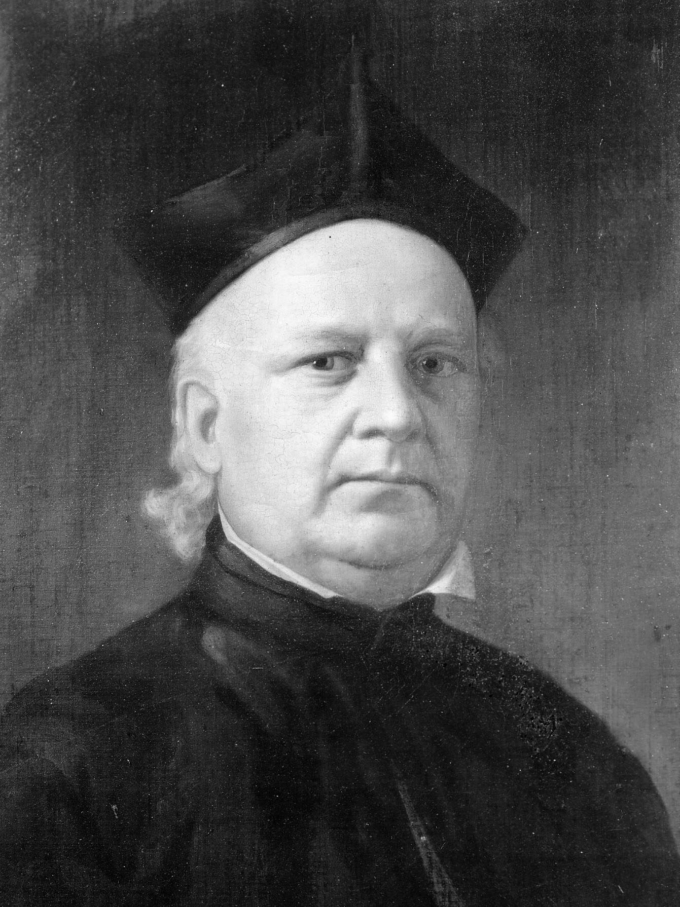 Portrait of Rev. James A. Ryder, president of Georgetown University